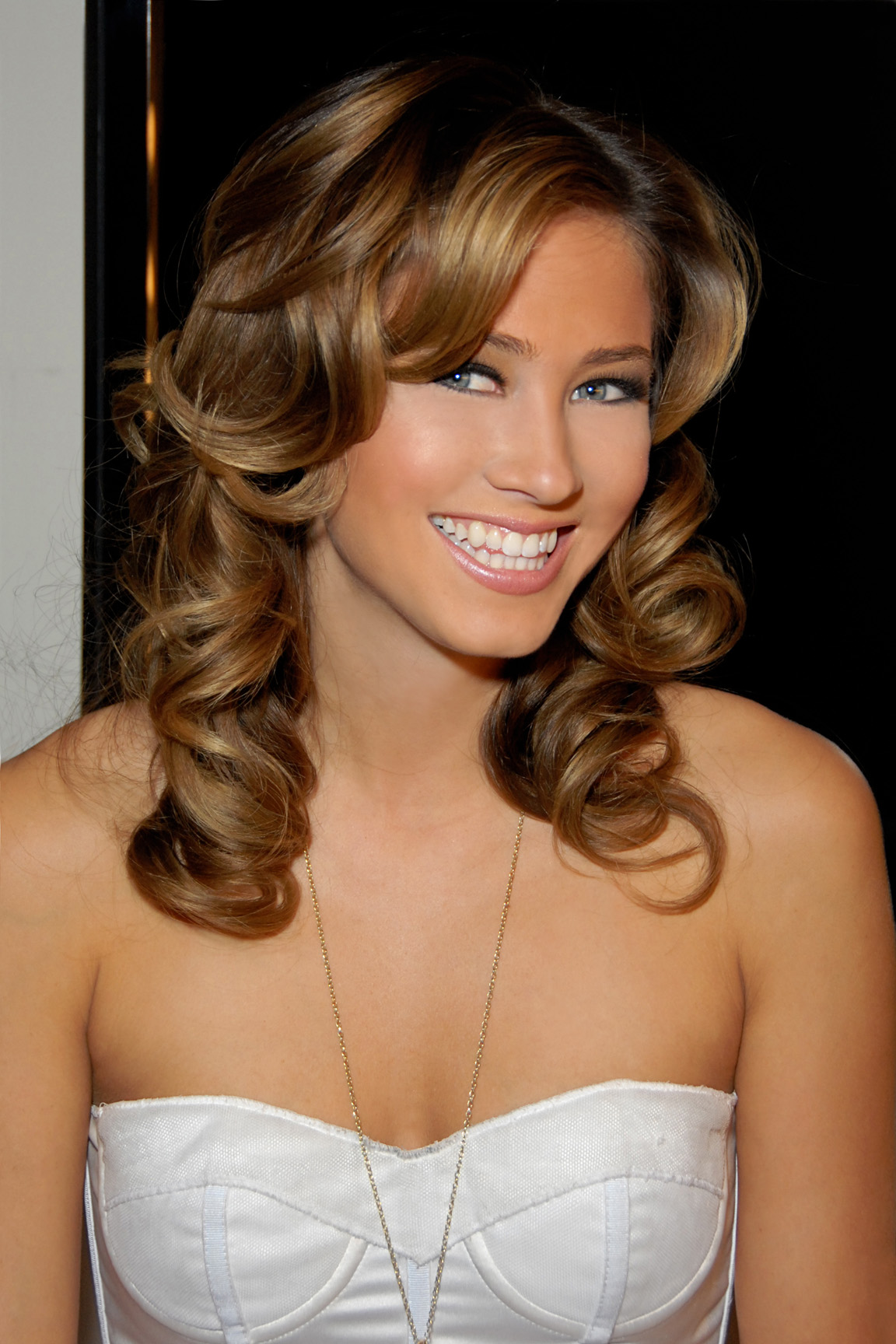 Tami Farrell attending the Miss California USA 2010 Pagent at the Agua Caliente Casino in Rancho Mirage, CA on Nov. 22, 2009 - Photo by Glenn Francis of